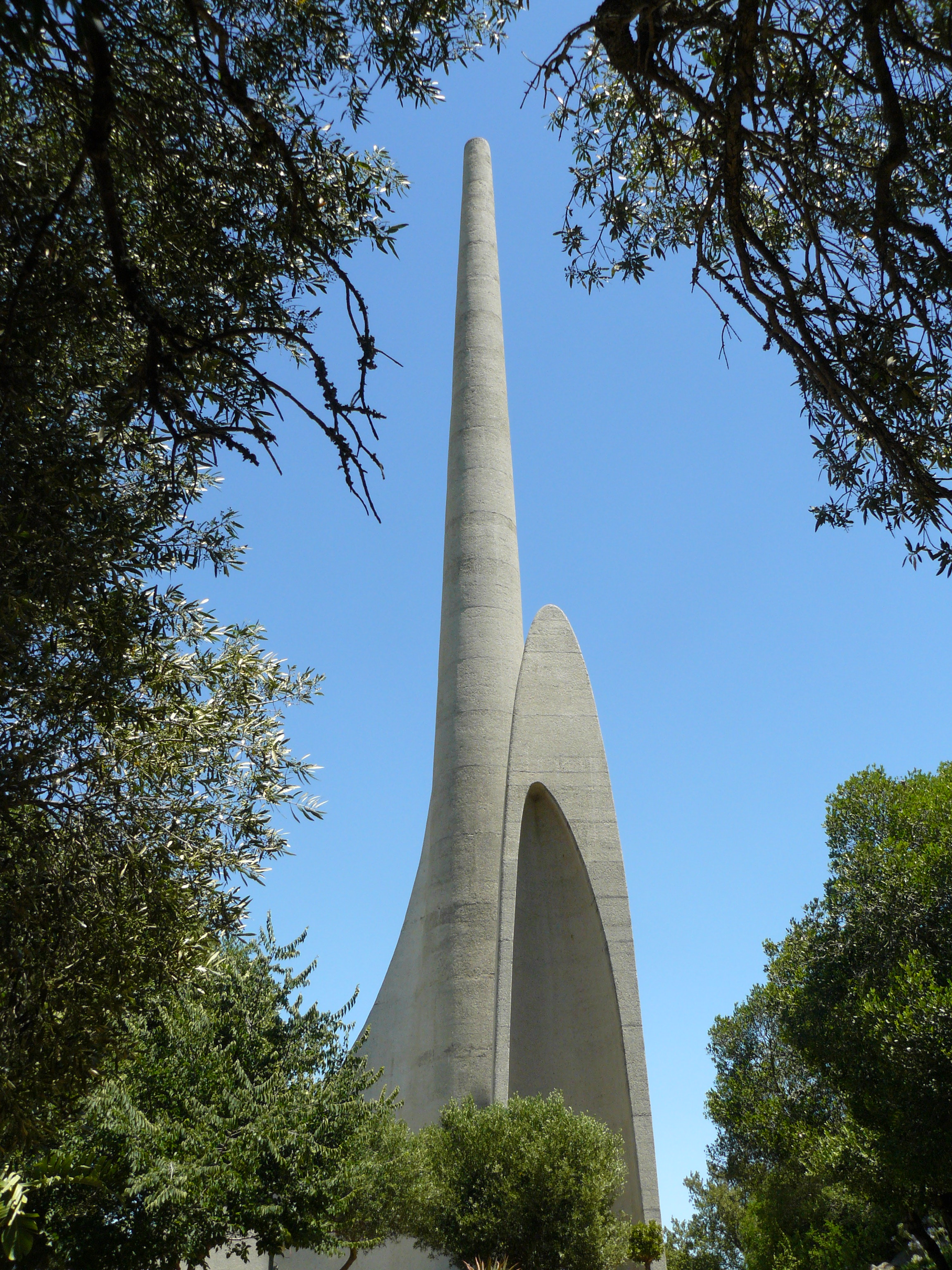 Obelisks of the Afrikaans Language Monument, near Paarl, South Africa.